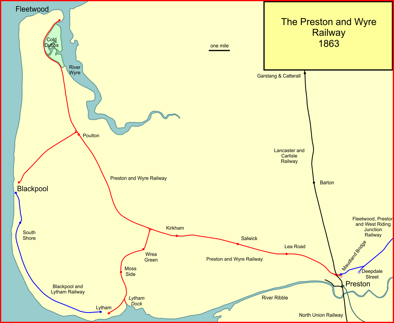 System map of the Preston and Wyre Railway, Lancashire, England, in 1863